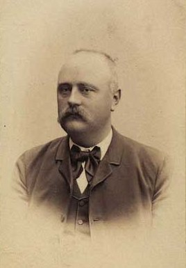 Herman Heinrich Louis Schwanenflügel (1844-1921), Danish literary historian